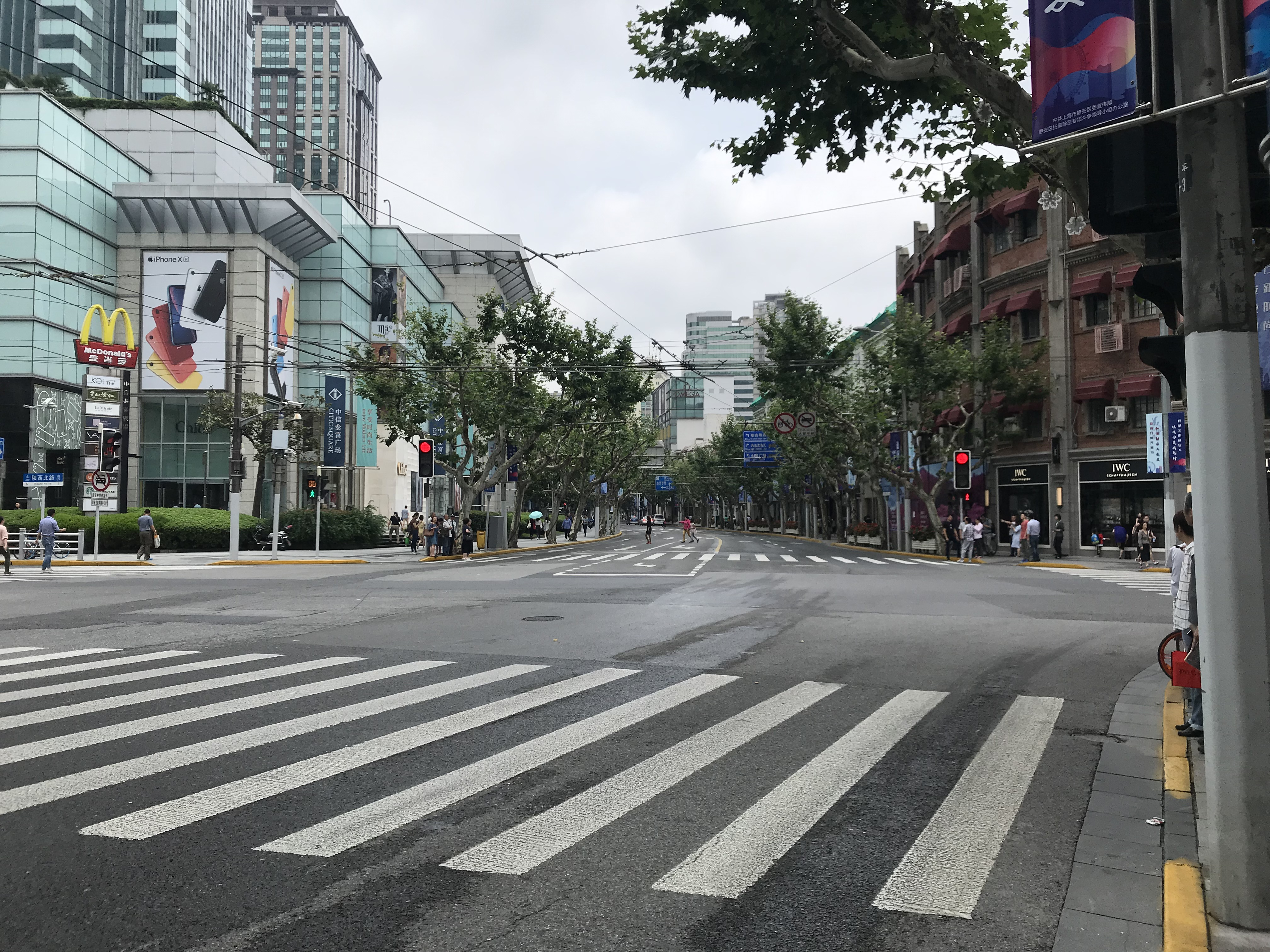 201907 Intersection of Nanjing Road W and Shaanxi Road N